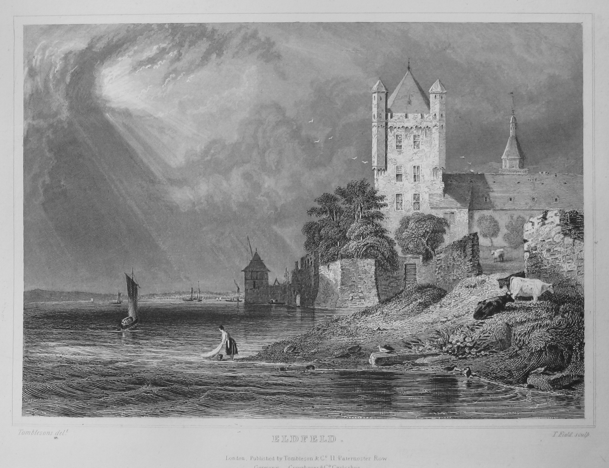 Steel engraving from "Views of the Rhine" by William Tombleson (around 1840): Castle of Eltville